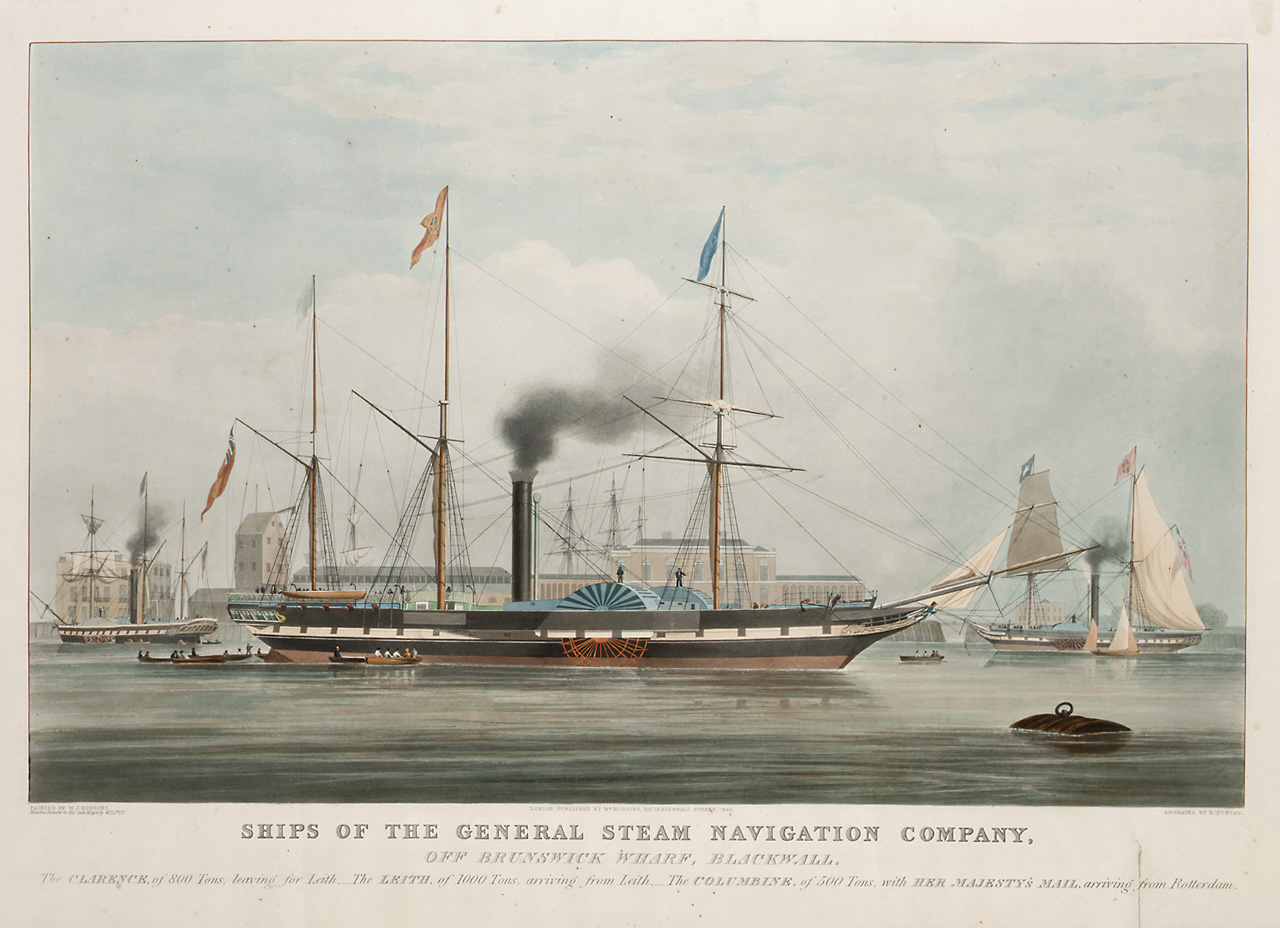 Ships of the General Steam Navigation Company, off Brunswick Wharf, Blackwall. The Clarence of 800 Tons, leaving for Leith, The Leith of 1000 Tons arriving from Leith - The Columbine, of 500 Tons, with her Majesty's Mail arriving from Rotterdam Hand-coloured aquatint depicting ships of the General Steam Navigation Company: the Clarence is leaving for Leith, The Leith is arriving from Leith, and The Columbine is arriving from Rotterdam with Her Majesty's Mail. It is not clear which ship is which.